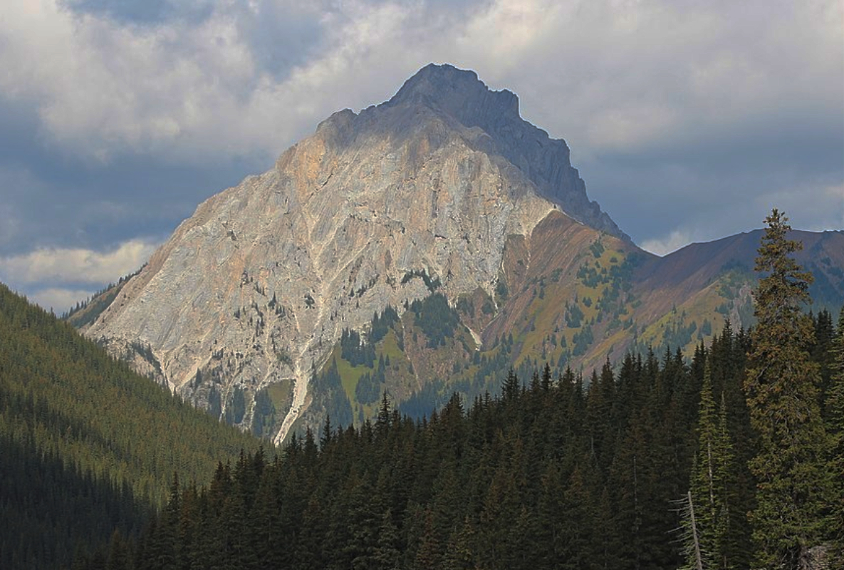 Gap Mountain. Kananaskis country highway 40 heading to Highwood pass